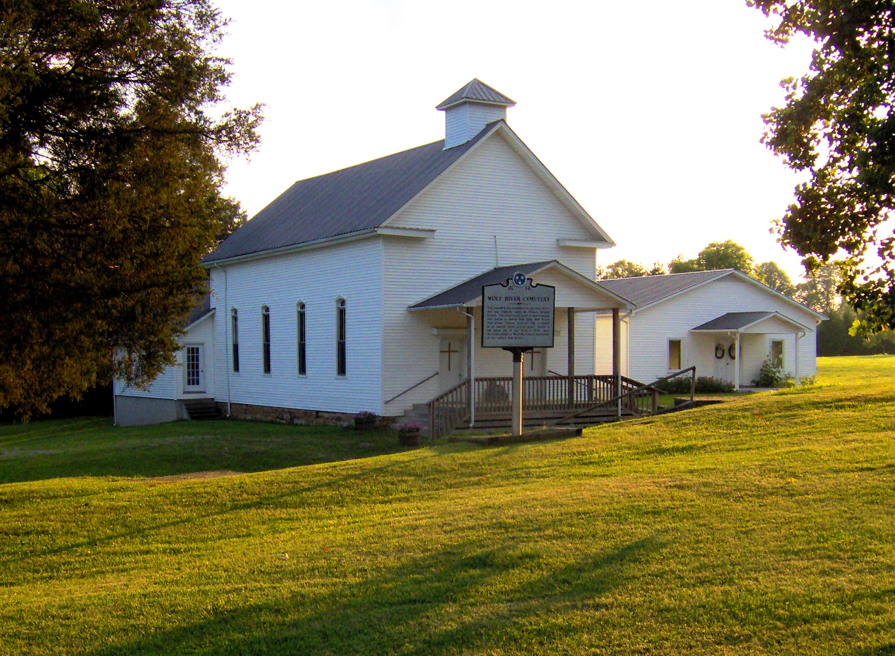 Wolf River Methodist Church in Pall Mall, in the U.S. state of Tennessee. The church is located amidst Sgt. York State Historic Park along the banks of the Wolf River. Coordinates: 36.54647 -84.95461.